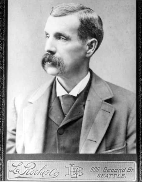 Caption on mount: La Roche and Co. 606 Second St. Seattle Handwritten on verso: Pioneer Albert Burrows. 1890. Homesteaded a mile of waterfront around S.E. 15th St. in 1883. PH Coll 141.17 In 1882, Albert Burrows (1837-1896) moved his family from Des Moines, Iowa, to Seattle, Washington, where he got a job in a sawmill. He met George Miller, who had homesteaded with his family at Beaux Arts (area of present-day Bellevue) in 1883 and was looking for other families to settle nearby in order to organize a school. As a Civil War veteran, Burrows was entitled to a homestead, and Miller led him to the 160 lakefront acre homestead at Killarney (area of present-day Bellevue), where Burrows built a cabin and later a more substantial house. Albert Burrows served in the 1894 state legislature and died of bronchitis in 1896. Subjects (LCTGM): Legislators--Washington (State) Subjects (LCSH): Burrows, Albert, 1837-1896